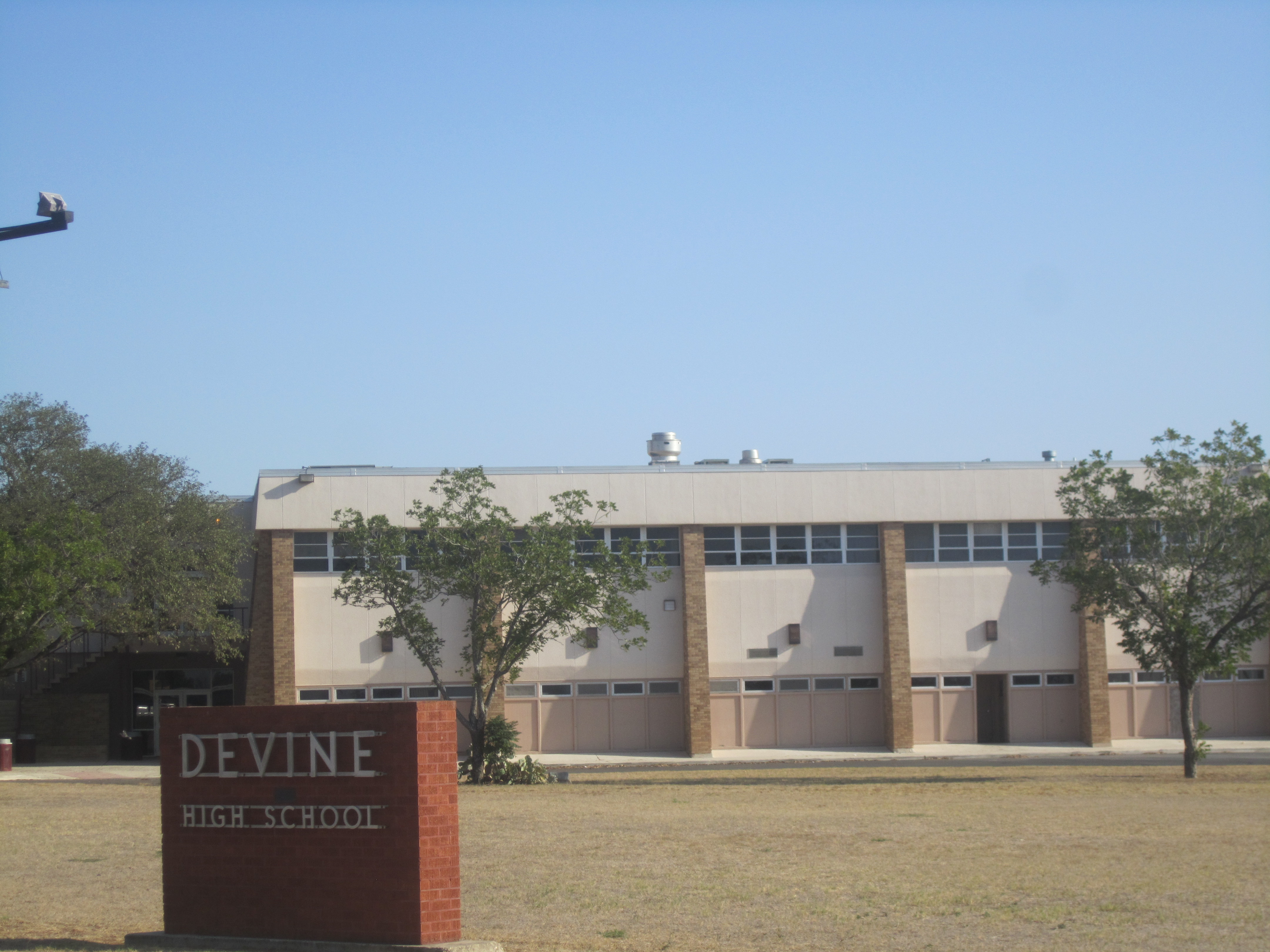 I took photo of Devine High School in Devine, TX, with Canon camera.